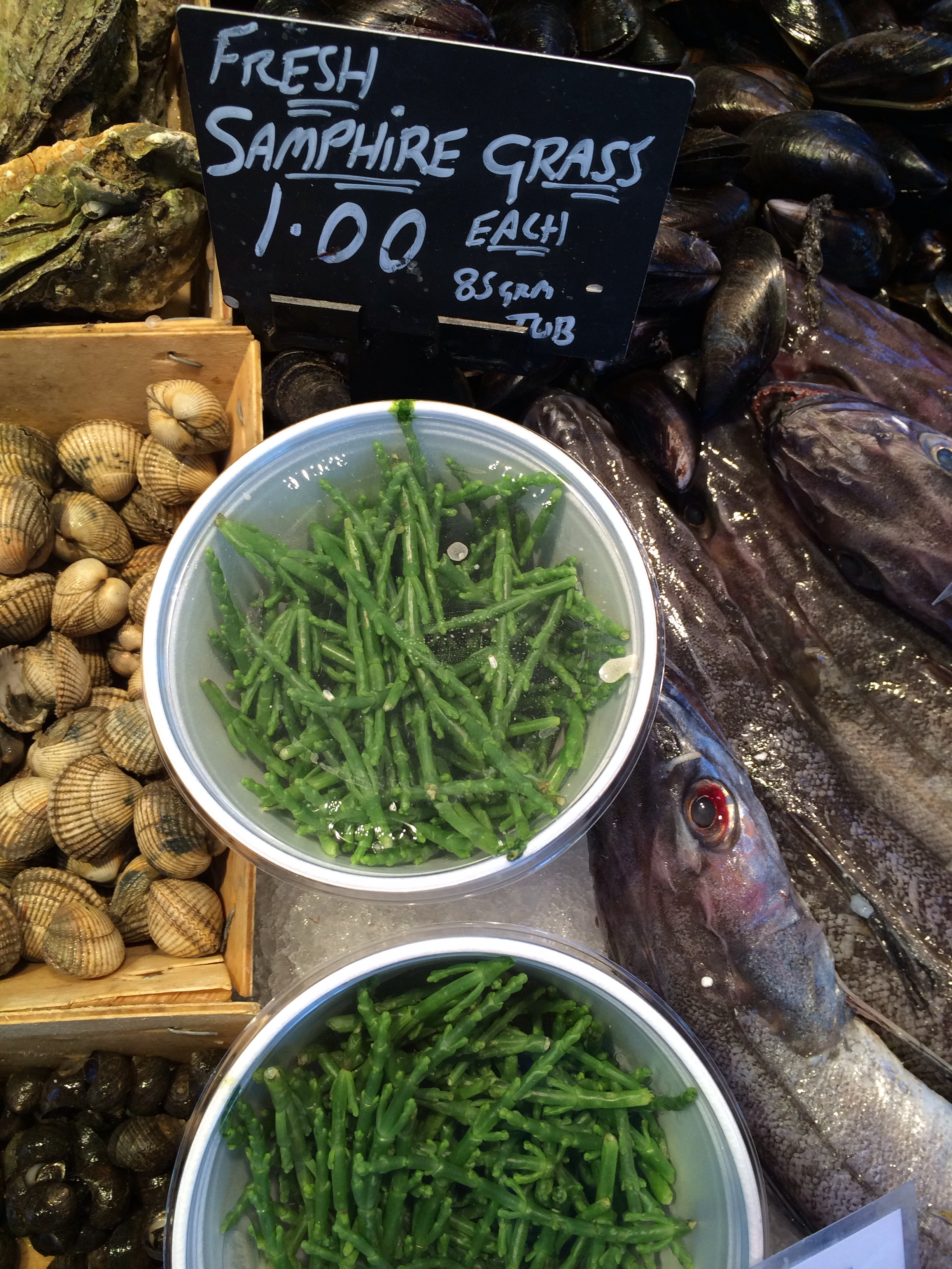 Image of fresh samphire for sale at Swansea Market fish stall